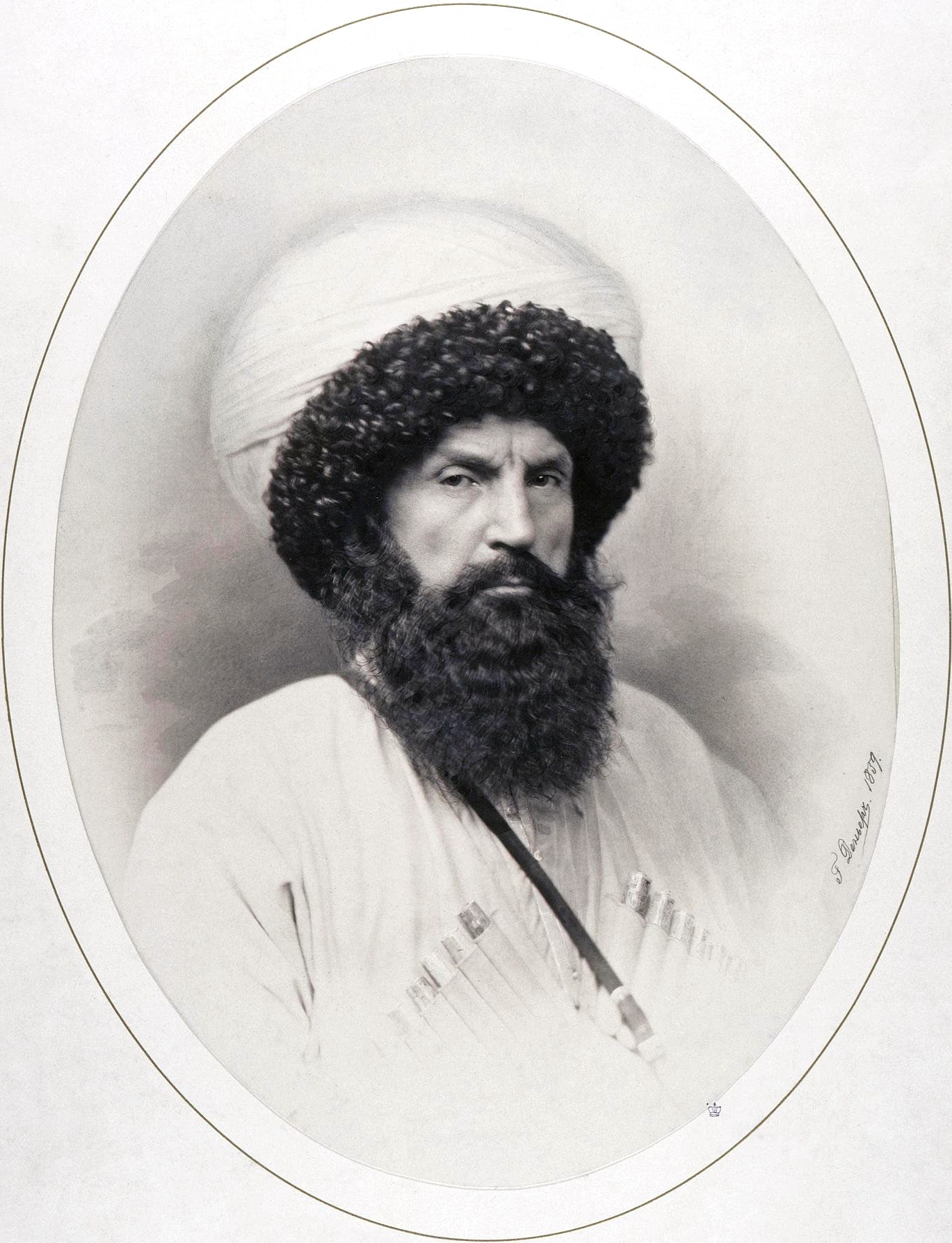 Shamil by Denier